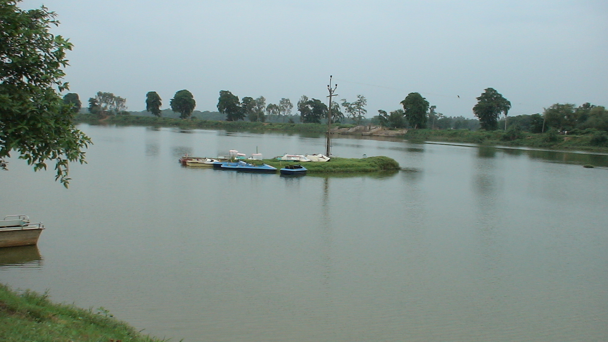 Scenery nature